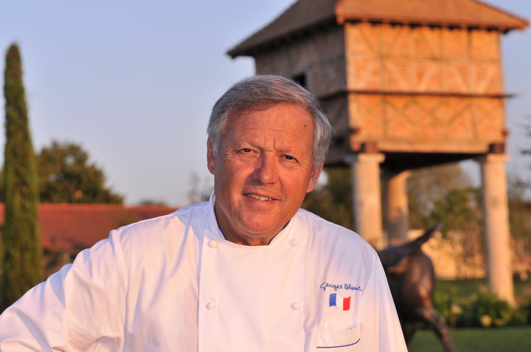 Georges Blanc portrait in 2009